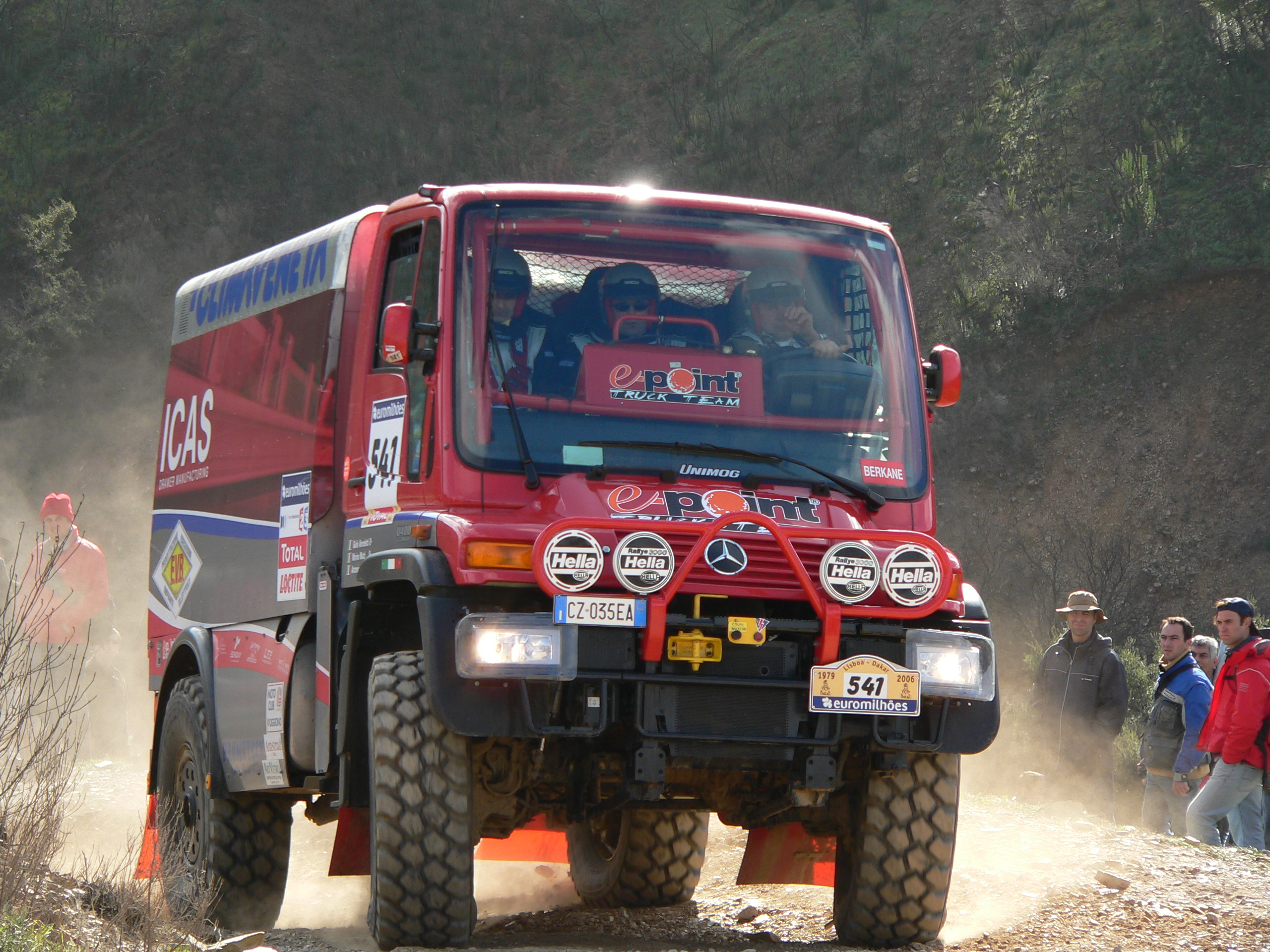 Unimog U400L n.541 on second stage of the rally-raid Lisboa-Dakar 2006. Date: photograph taken on 01. Jan. 2006.